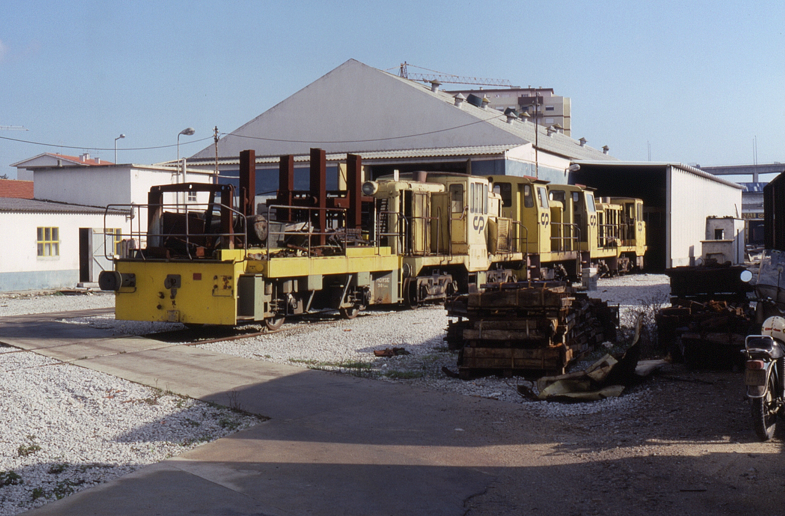 5 withdrawn shunters lined up at Figueira da Foz seen on 28 November 1990. From left to right nos. 1024 (class 1021), 1102 (class 1101), 1058 (class 1051), 1061 (class 1051) and 1107 (class 1101)